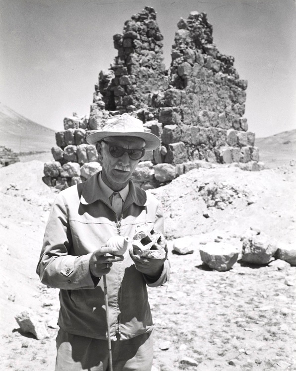 Kazimierz Michałowski on excavations in Palmyra (picture from exposition Wiesław Prażuch "Wizerunki", Stara Galeria ZPAF, Warszawa, 1988).